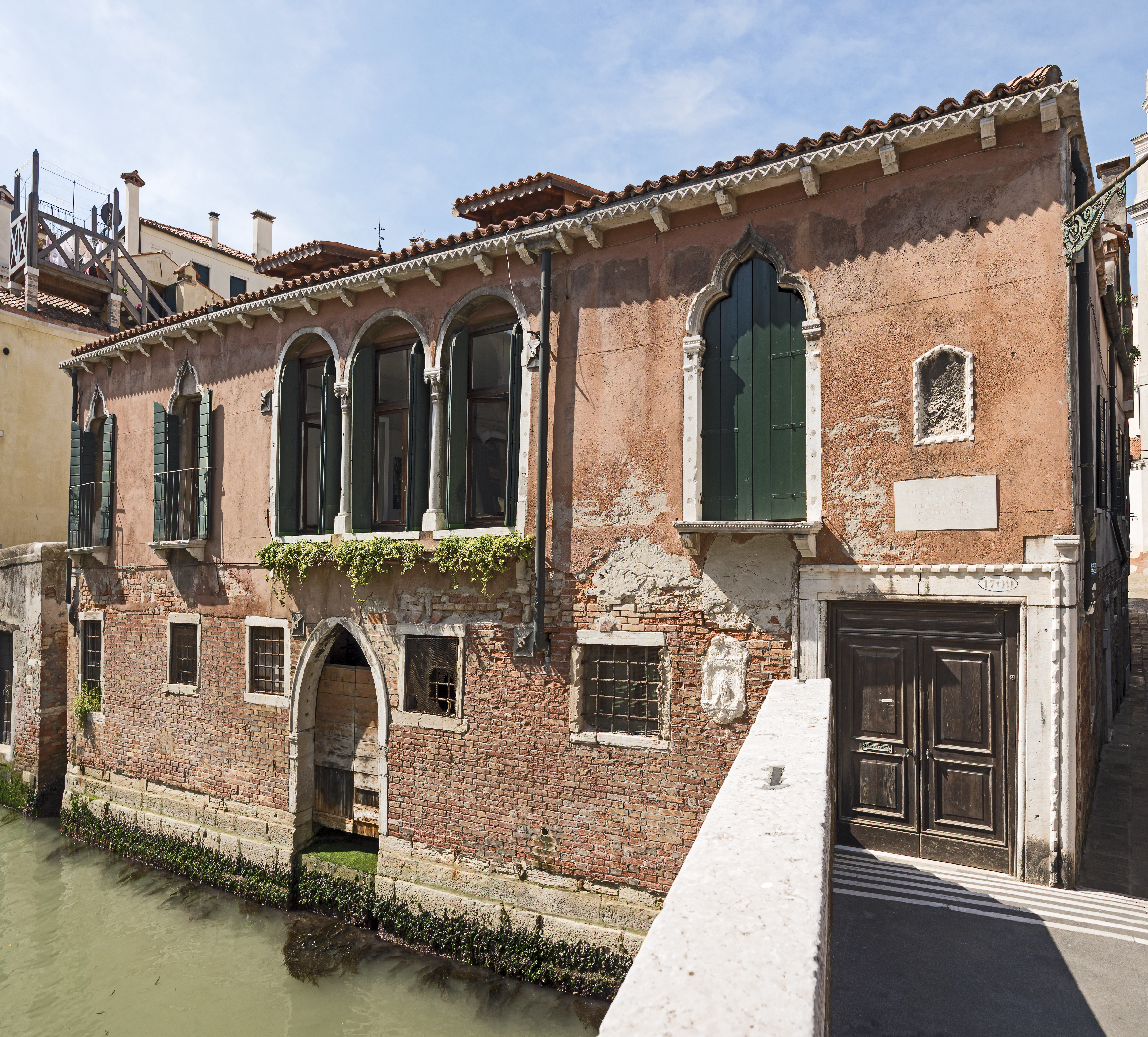 Rio San Sebastiano, the house of Filippo De Pisis in Venice (1943-1949)